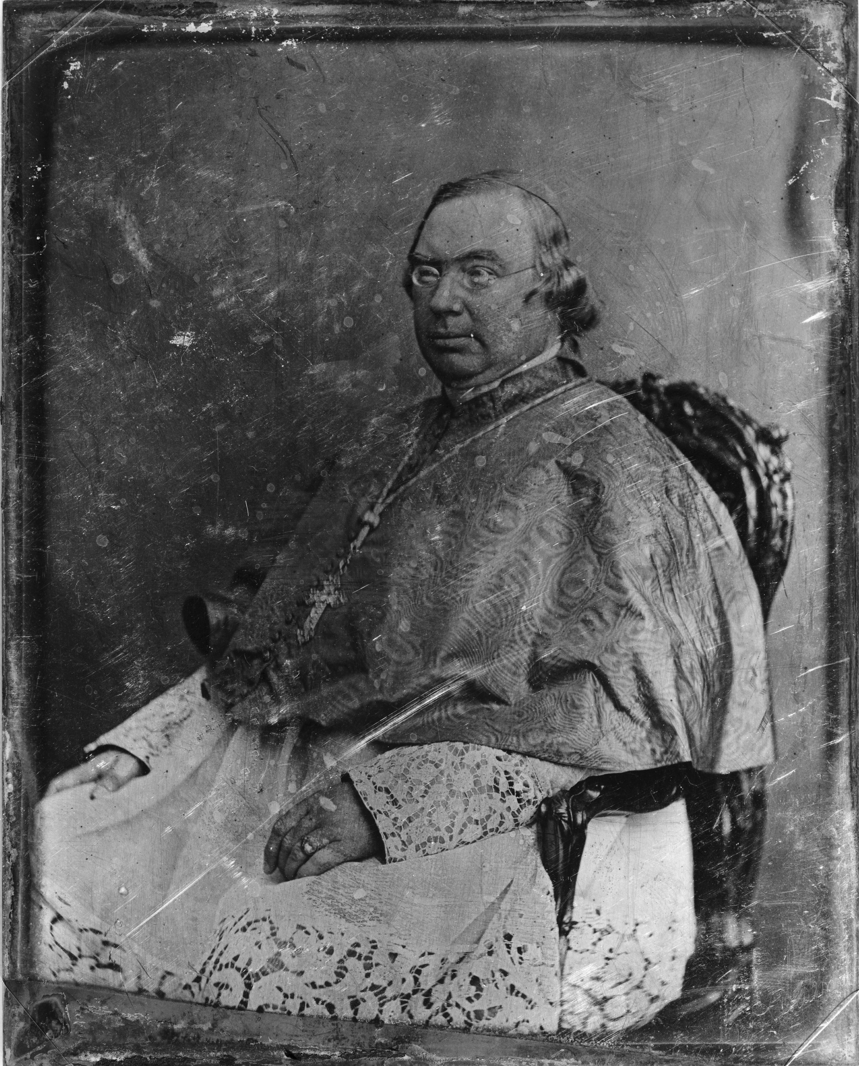 Nicholas Patrick Wiseman, three-quarter length portrait, seated in armchair, three-quarters to the left, in clerical robe. Cardinal, Archbishop of Westminster, England.